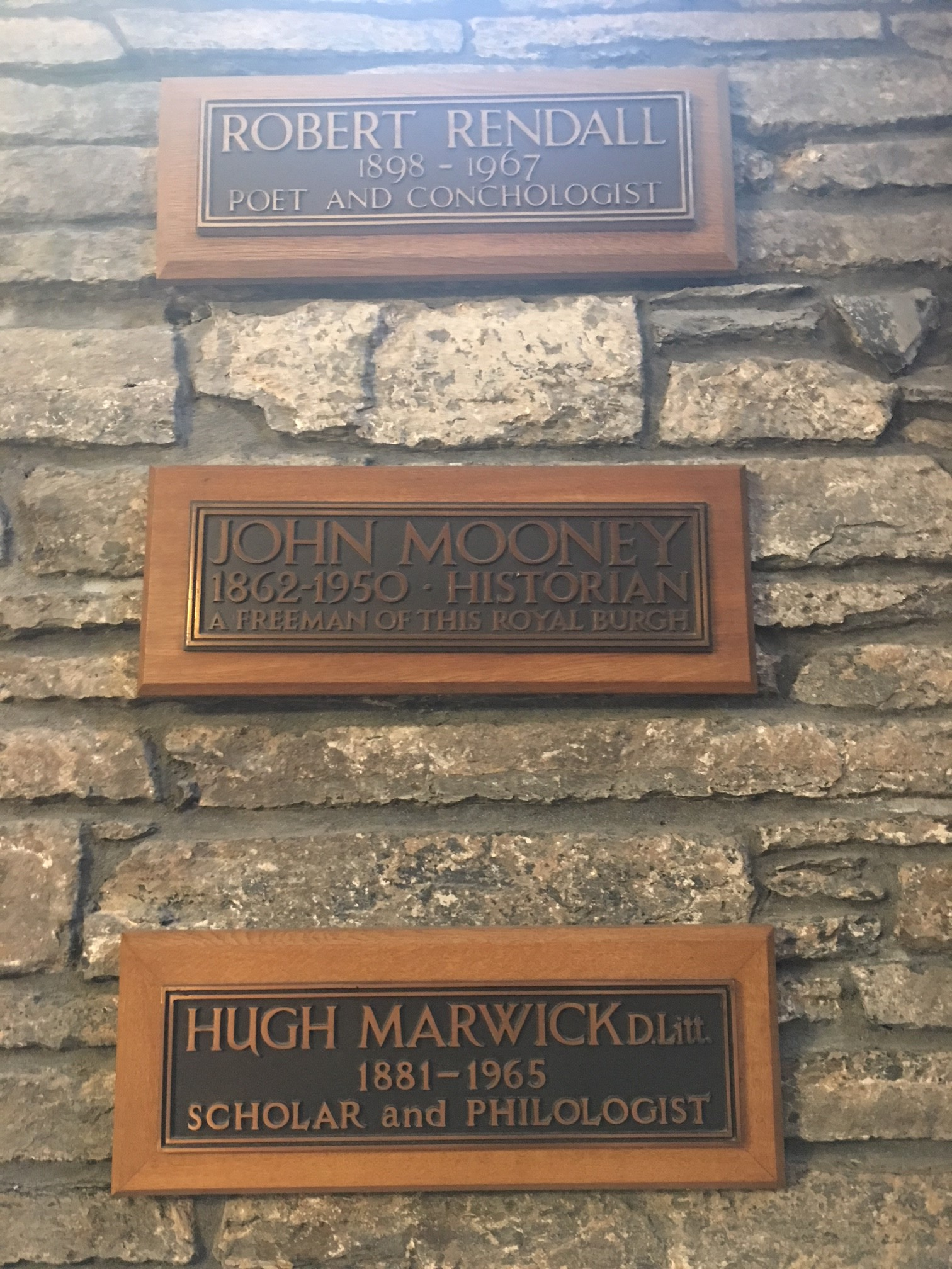 Memorial to Robert Rendall, John Mooney and Hugh Marwick in Kirkwall Cathedral, Orkney